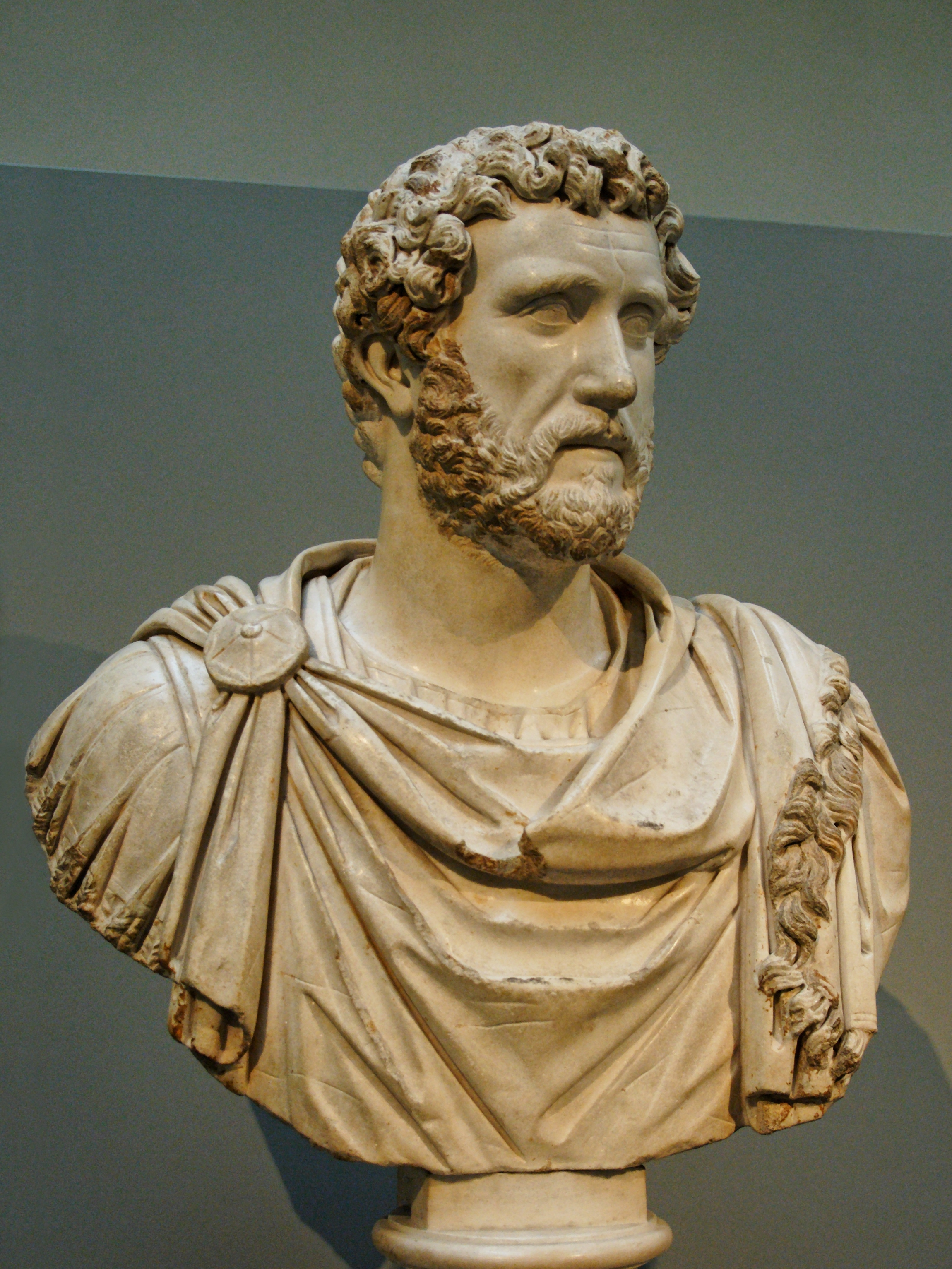 Portrait of Emperor Antoninus Pius. Marble, probably a replica of ca. 160 AD after a prototype created ca. 140 AD. From the house of Jason Magnus at Cyrene, North Africa.